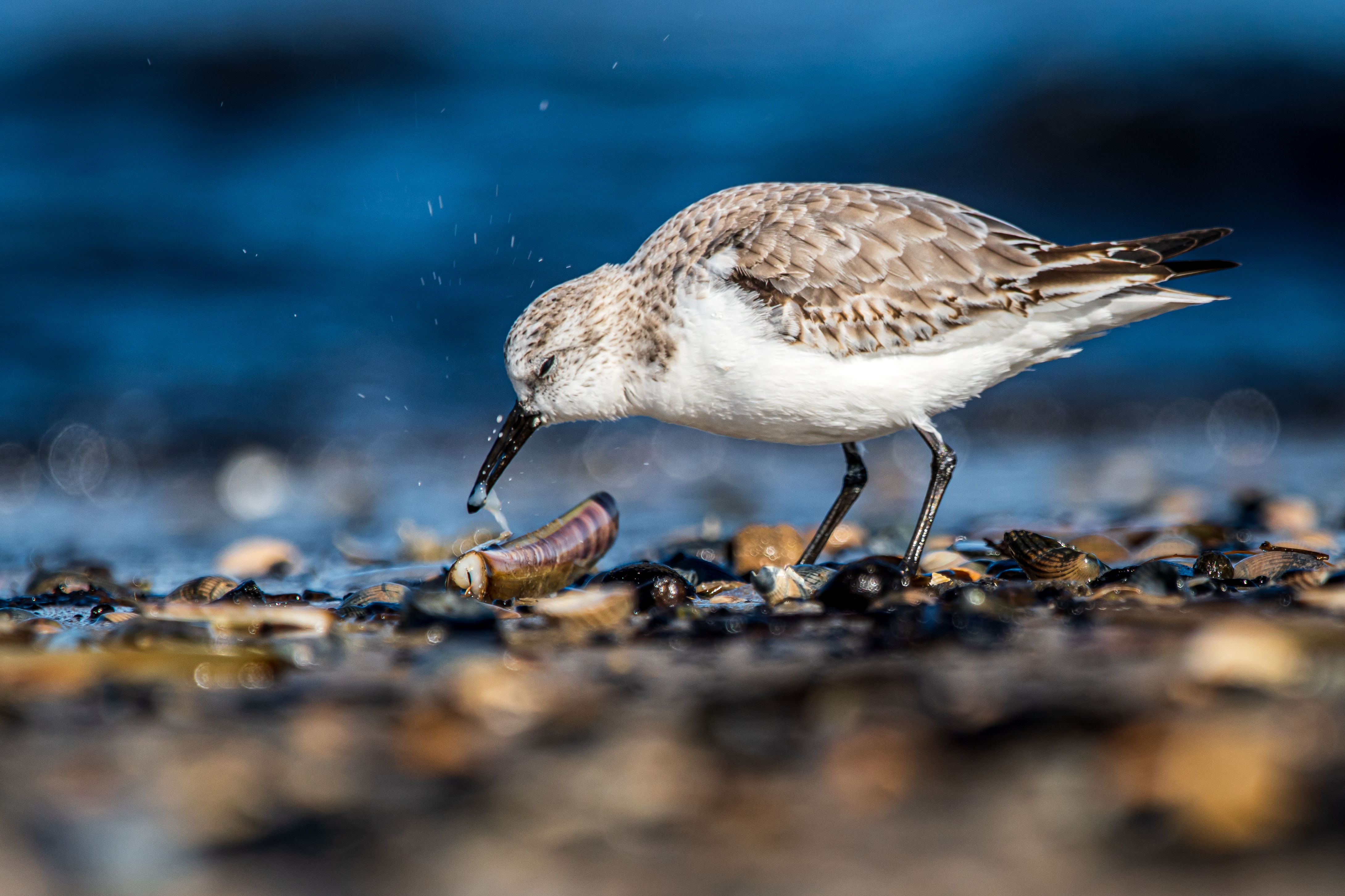 Sanderling (calidris alba) frisst Schwertmuschel (Ensis directus) - Spiekeroog, Nationalpark Niedersächsisches Wattenmeer